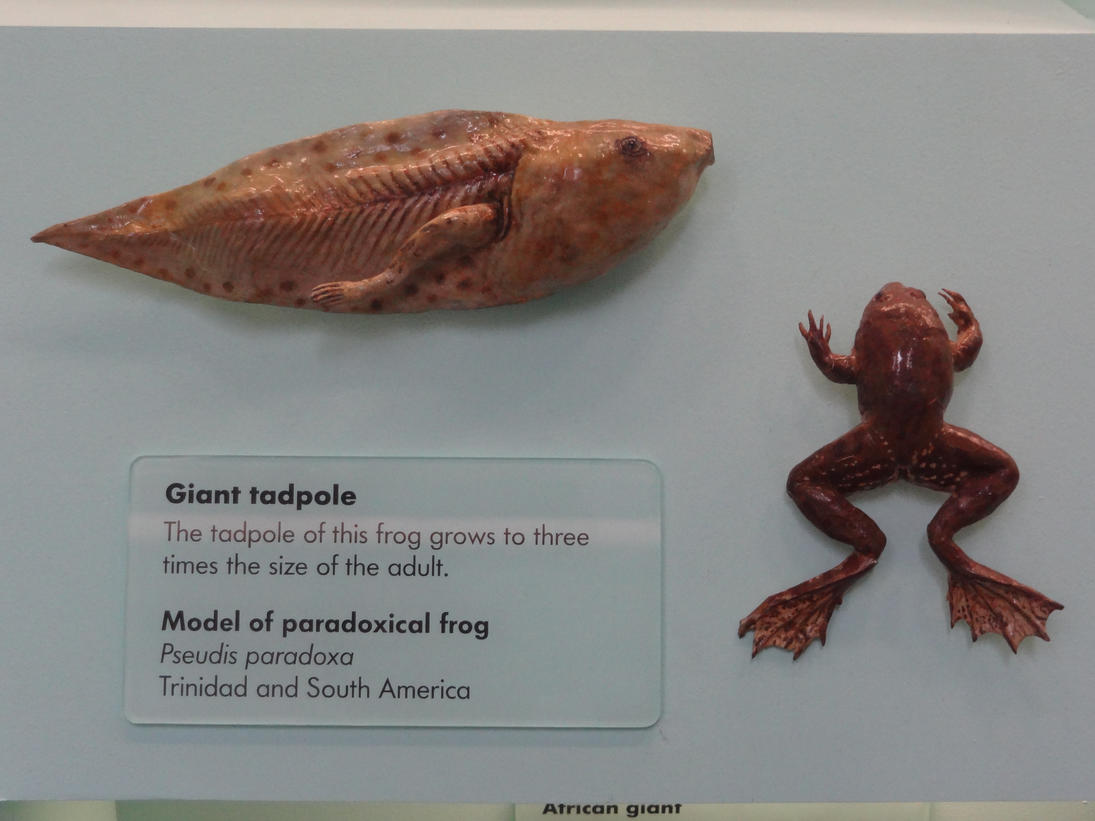 Paradoxical frog (Pseudis paradoxa) adult and tadpole model in the Natural History Museum London